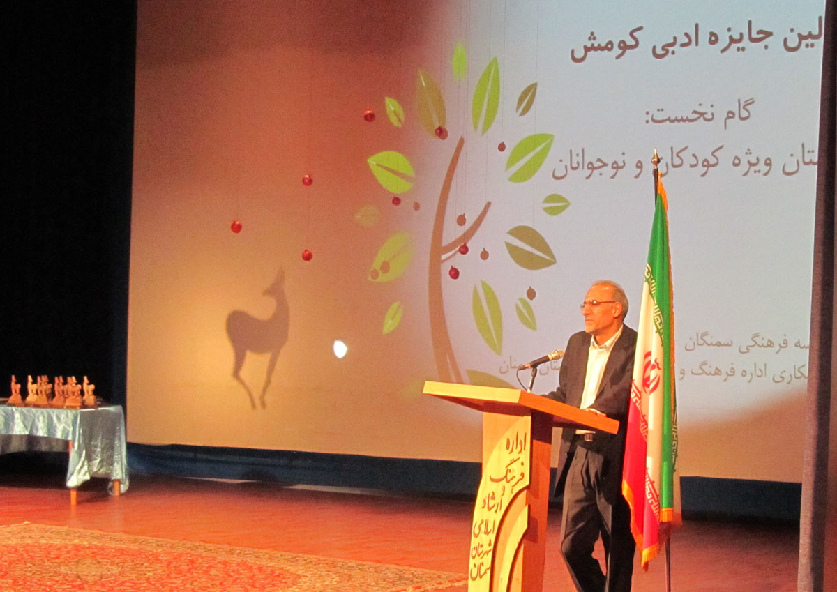 Fereydoun Amoozadeh Khalili at First Koomesh Award, Semnan, November 2013